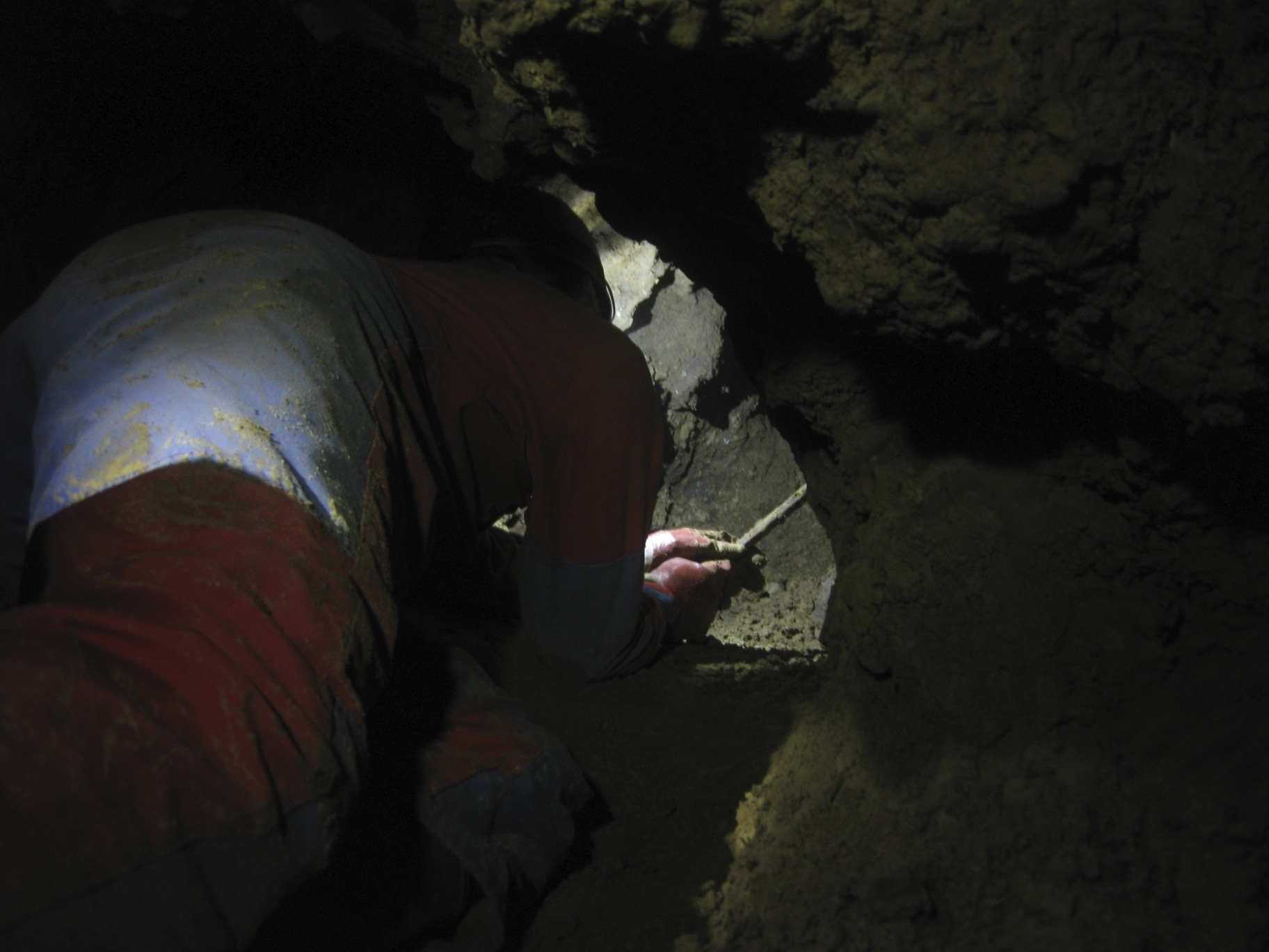 Speleologists belonging to the "Arbeitskreis Kluterthöhle" group removing sediment form a passage.